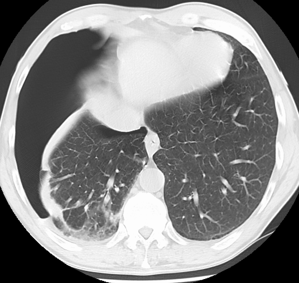 A pneumothorax